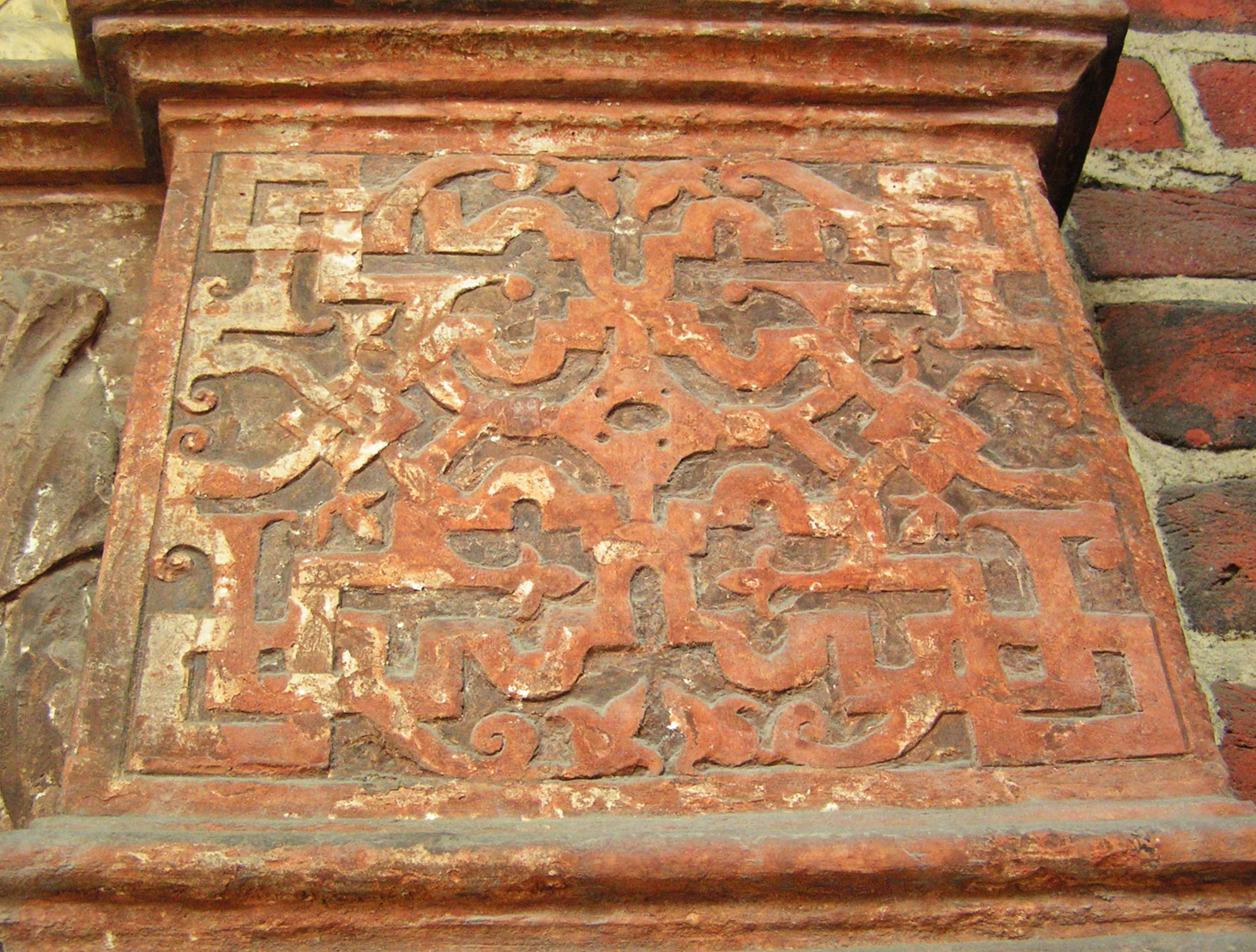 Strapwork - a fragment of Czarny' headstone, made after 1566, located near south entrance to the Church of St. Mary in Kraków. See also: Image:Headstone Czarny, Krakow.jpg - a photo of whole headstone.